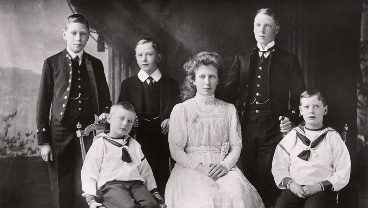 A photo of Prince John, "the lost prince," and his brothers and sister.